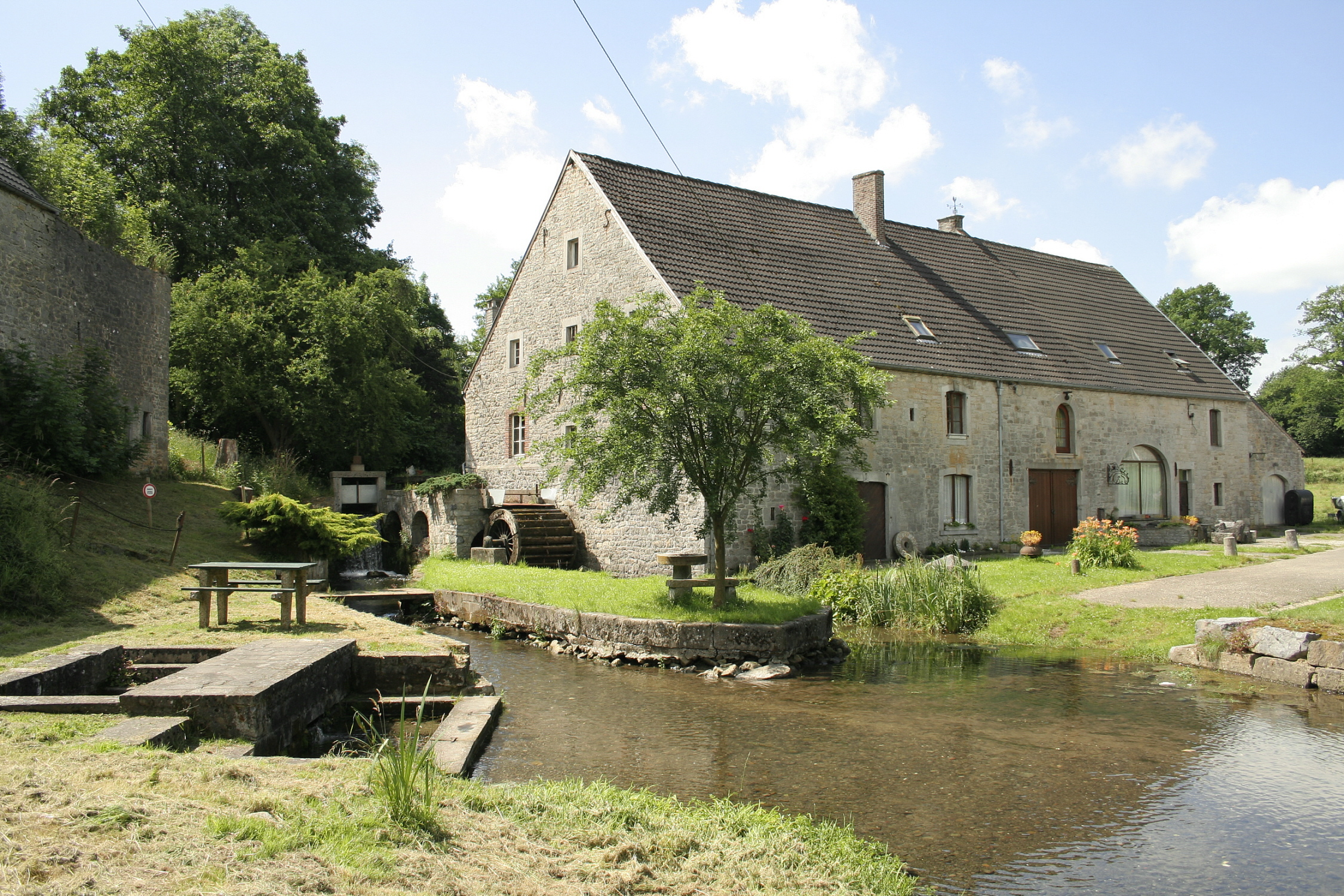 Mohiville (Belgium), the watermill of Scoville (1743) on the Bocq river.